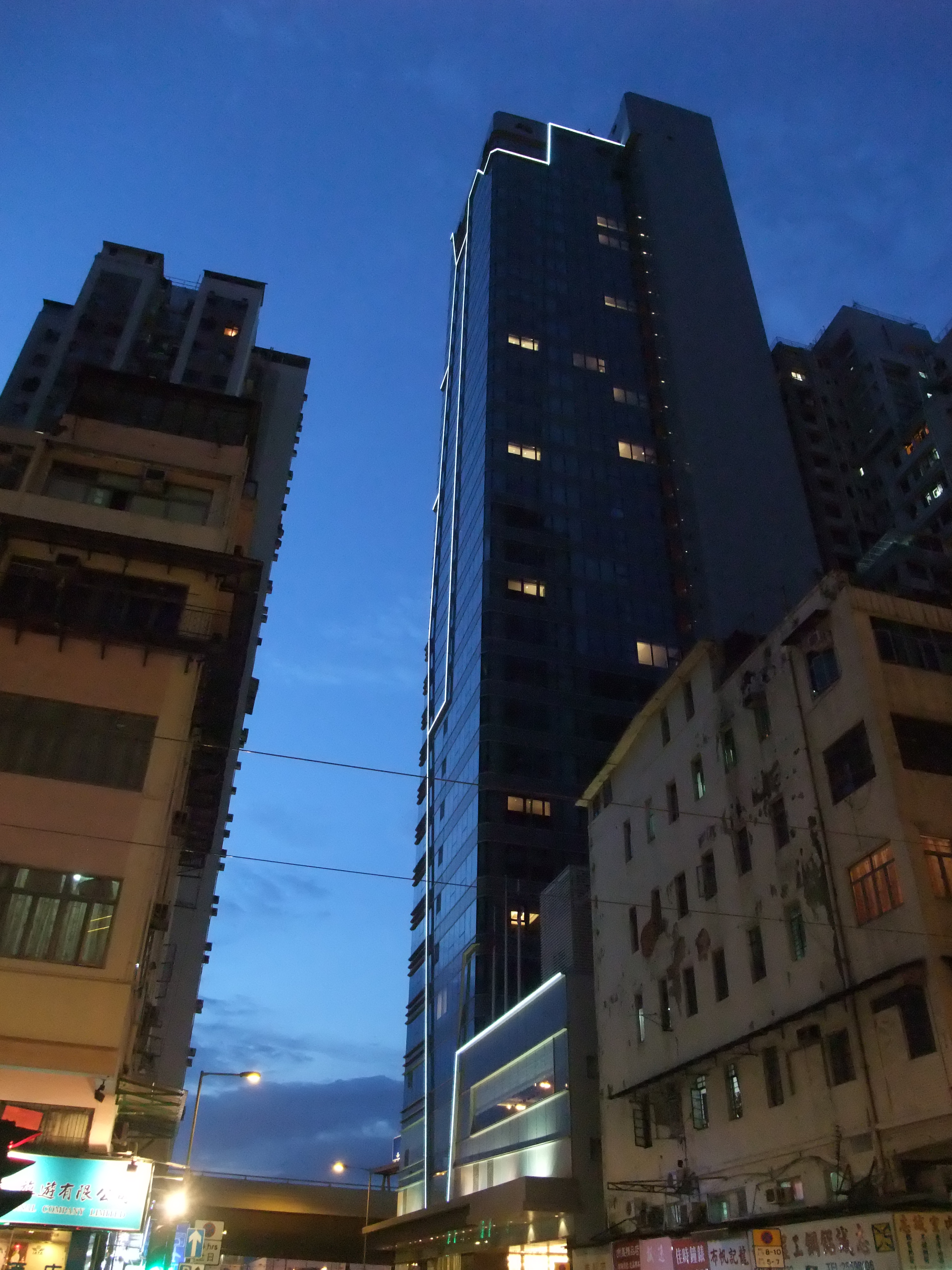 Photo of Courtyard By Marriott Hong Kong